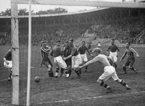 Football game. Promotion Playoff game between Djurgårdens IF and IK Brage at the end of the 1929–30 season.